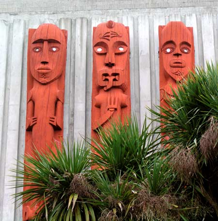 These carvings in the Square, Palmerston North, were crafted by John Bevan Ford and Warren Warbrick, and depict ancestors of the Rangitāne tribe as kaitiaki (guardians). Photograph by Shirley Williams. Photo by kind permission of Te Ara: The Encyclopedia of New Zealand. See also this page on Te Ara's website.